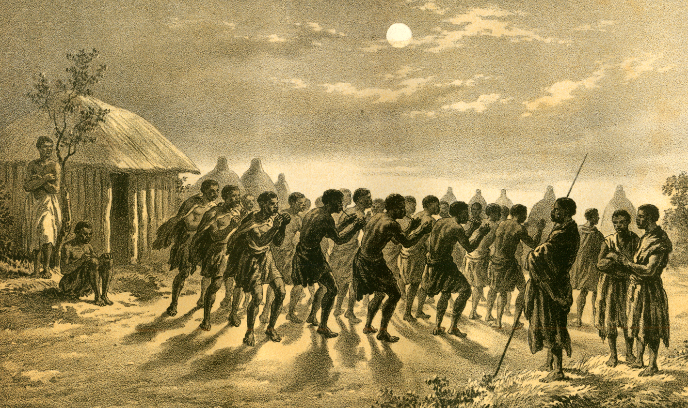 Bechuana Reed Dance, by Moonlight. Livingstone describes a dance: "The people usually show their joy and work off their excitement in dances and songs. The dance consists of the men standing nearly naked in a circle, with clubs or small battle-axes in their hands, and each roaring at the loudest pitch of his voice, while they simultaneously lift one leg, stamp heavily twice with it, then lift the other and give one stamp with that; this is the only movement in common. The arms and head are thrown about also in every direction; and all this roaring is kept up with the utmost possible vigour; the continued stamping makes a cloud of dust ascend, and they leave a deep ring in the ground where they have stood. If the scene were witnessed in a lunatic asylum it would be nothing out of the way, and quite appropriate even, as a means of letting off the excessive excitement of the brain . . ." [p. 225]